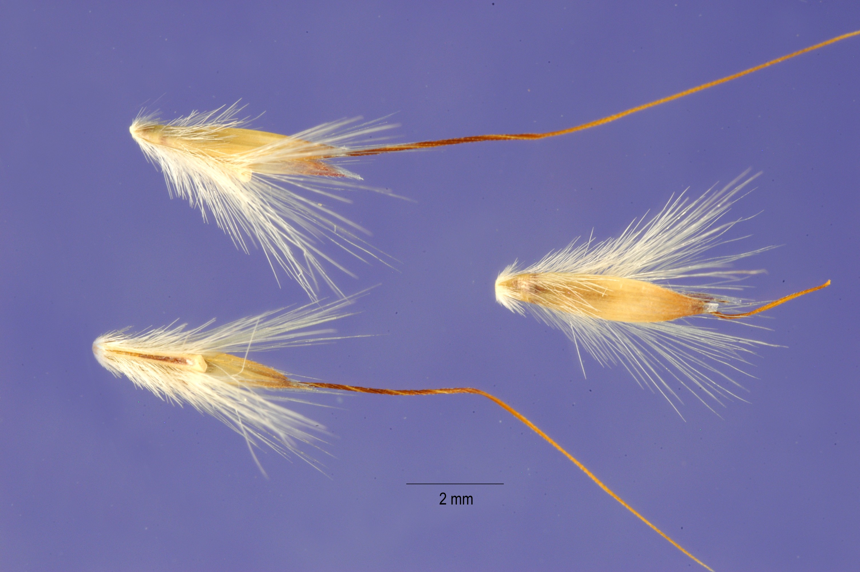 seeds of Bothriochloa ischaemum Provided by ARS Systematic Botany and Mycology Laboratory. Islamic Republic of Iran.